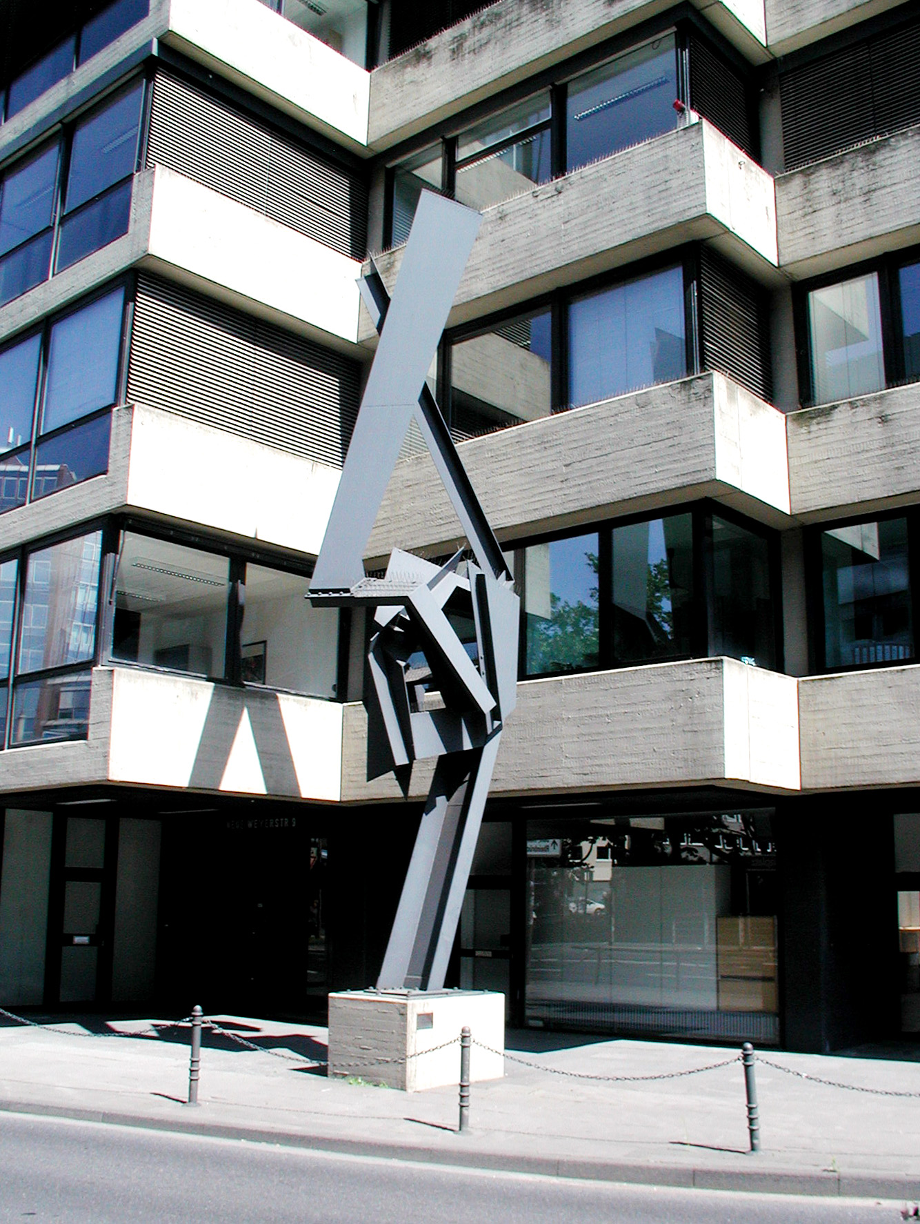 Cologne, Barbarossaplatz / Neue-Weyerstraße "Attila", Paul Suter (*1926) 1976/77